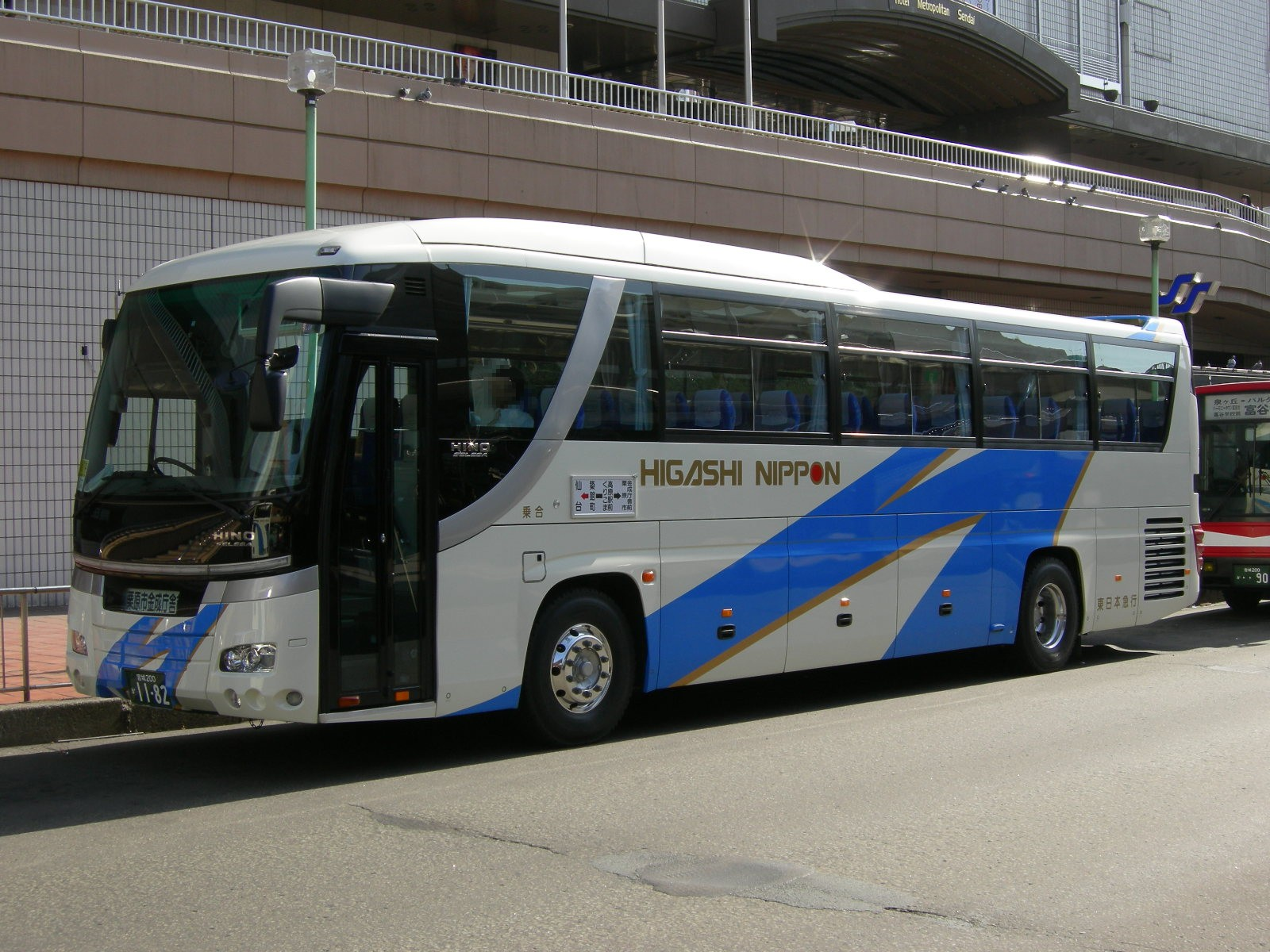 東日本急行（Higashinippon express）日野セレガ